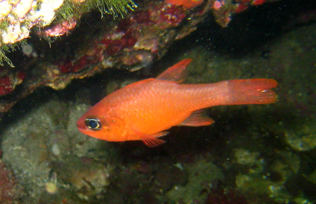 Apogon imberbis, picture taken in Niolon near Marseilles